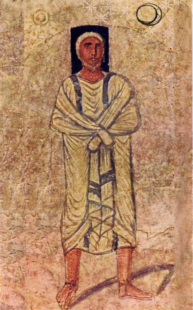 Joshua. Fresco from the Dura Europos synagogue (Jewish Art, ed. Cecil Roth, Tel Aviv: Massadah Press, 1961, cols. 203-204: "Joshua").